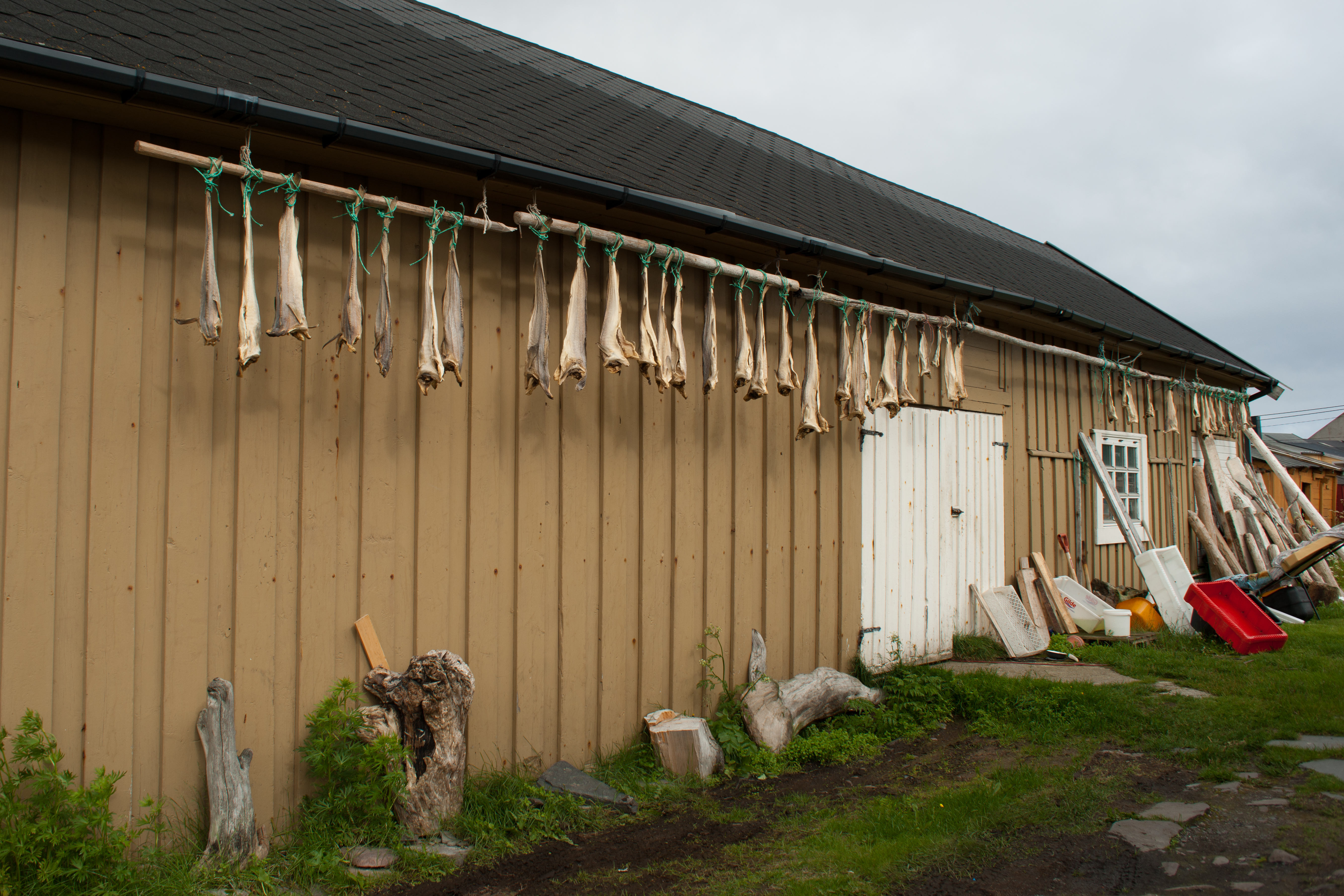 Drying cod, Vardø, Norway.